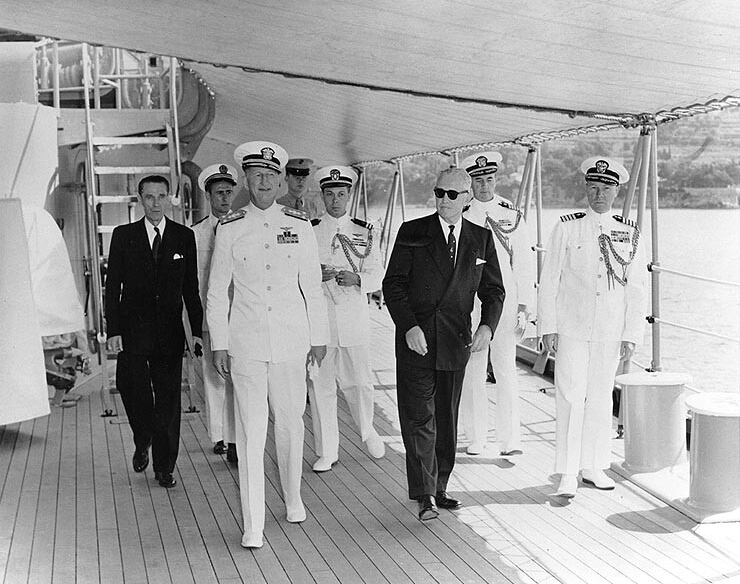 Vice Admiral Matthias B. Gardner, USN, Commander Sixth Fleet (left center) On board a U.S. Navy cruiser visiting Nice, France, circa 1951-1952